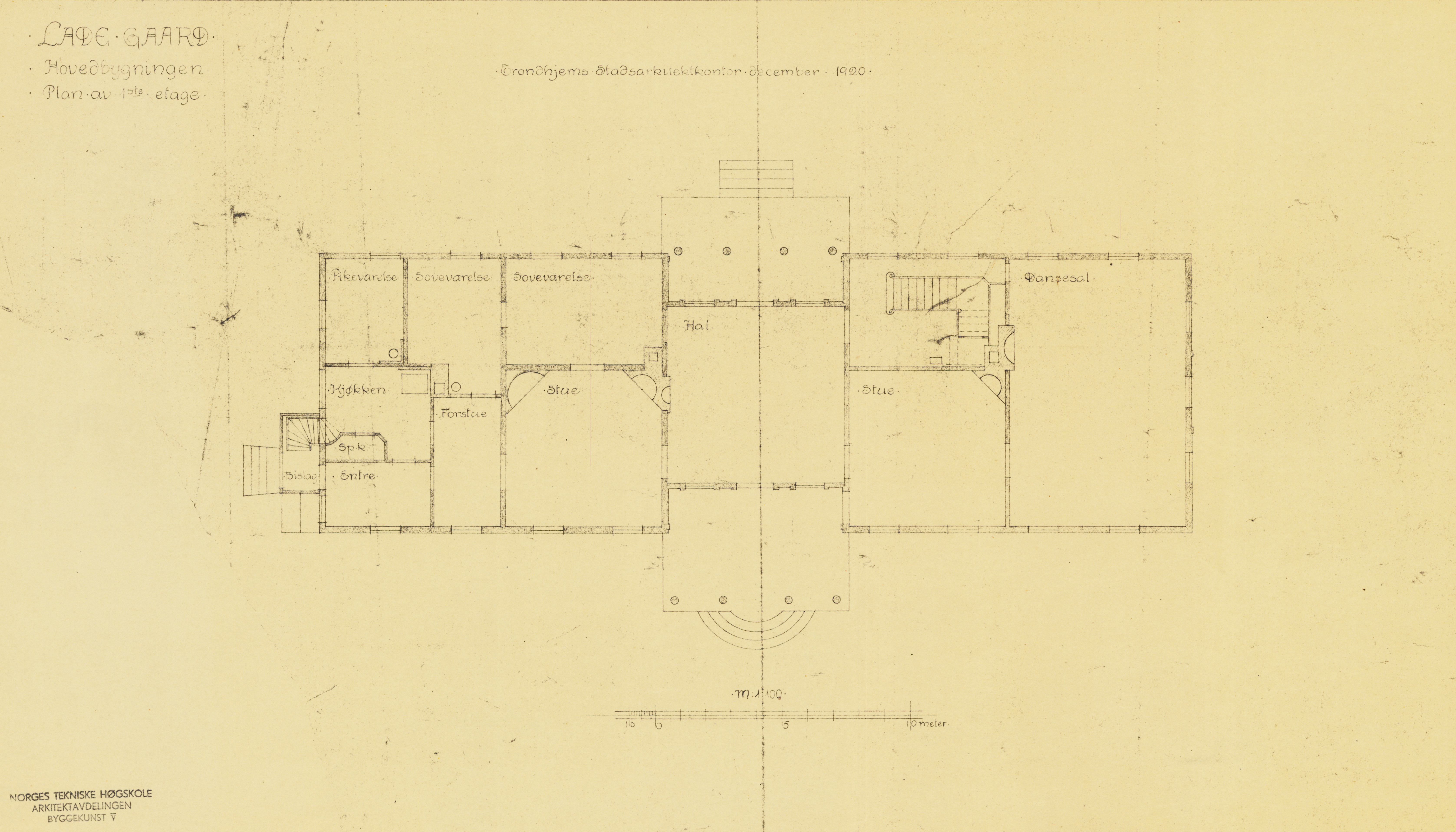 Ground floor plan of the protected main building at Lade Gård (Lade Hall) in Trondheim, Norway